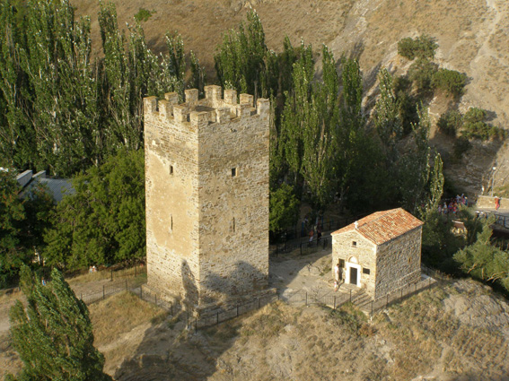 Astaguero's Tower (1386). Genoese fortress in Sudak, Ukraine